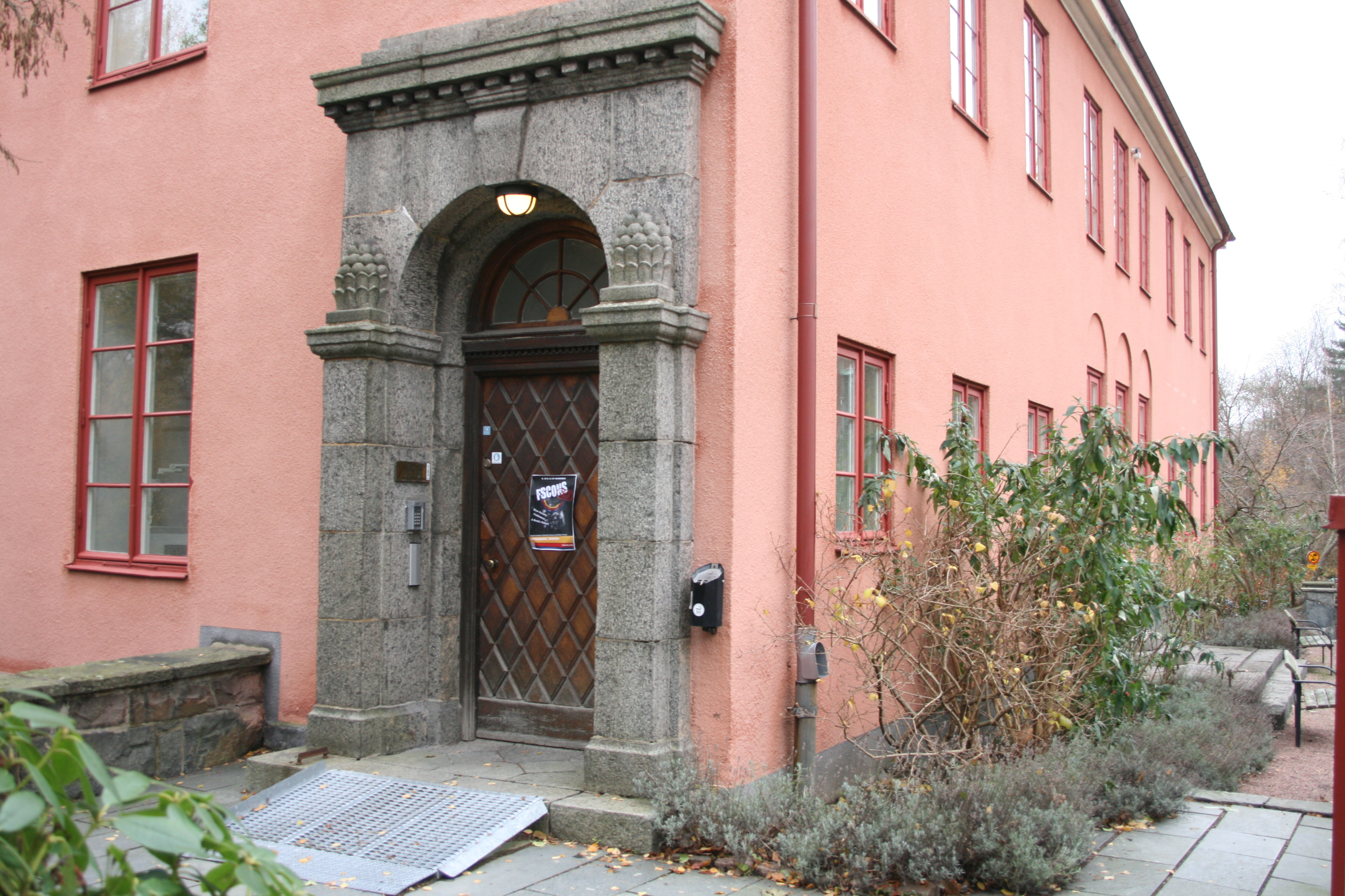 Department of Swedish, University of Gothenburg, Lennart Torstenssons gata, exterior from the east